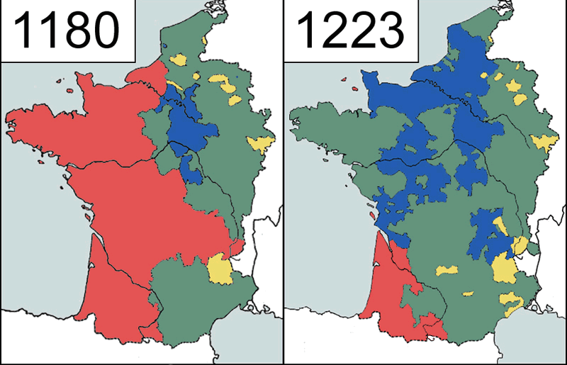 Les conquêtes territoriales de Philippe Auguste, entre son avènement (1180) et sa mort (1223). Changes in Angevin and Caputian holdings in France Key: Blue=French royal domains Green=Fiefs held on behalf of the French crown Yellow=Church lordships Red=Fiefs held on behalf of the English crown